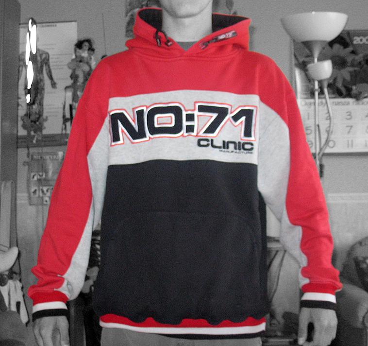 A Polish hip-hop fashion brand Clinic Manufacture hoodie. Model - NO:71.